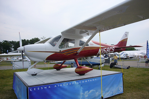 Cessna's light-sport aircraft concept (N158CS) as seen on static display at EAA AirVenture 2006.